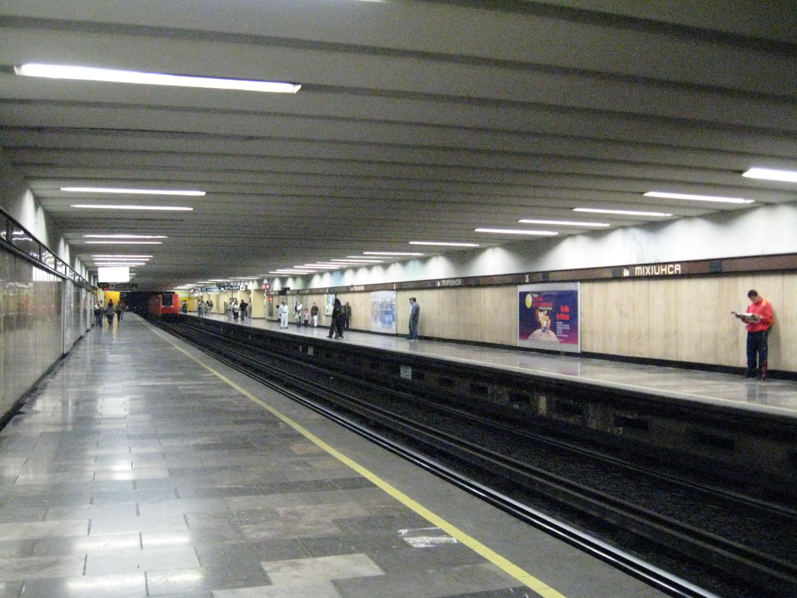 View of the Metro station Mixiuhca westbound platform